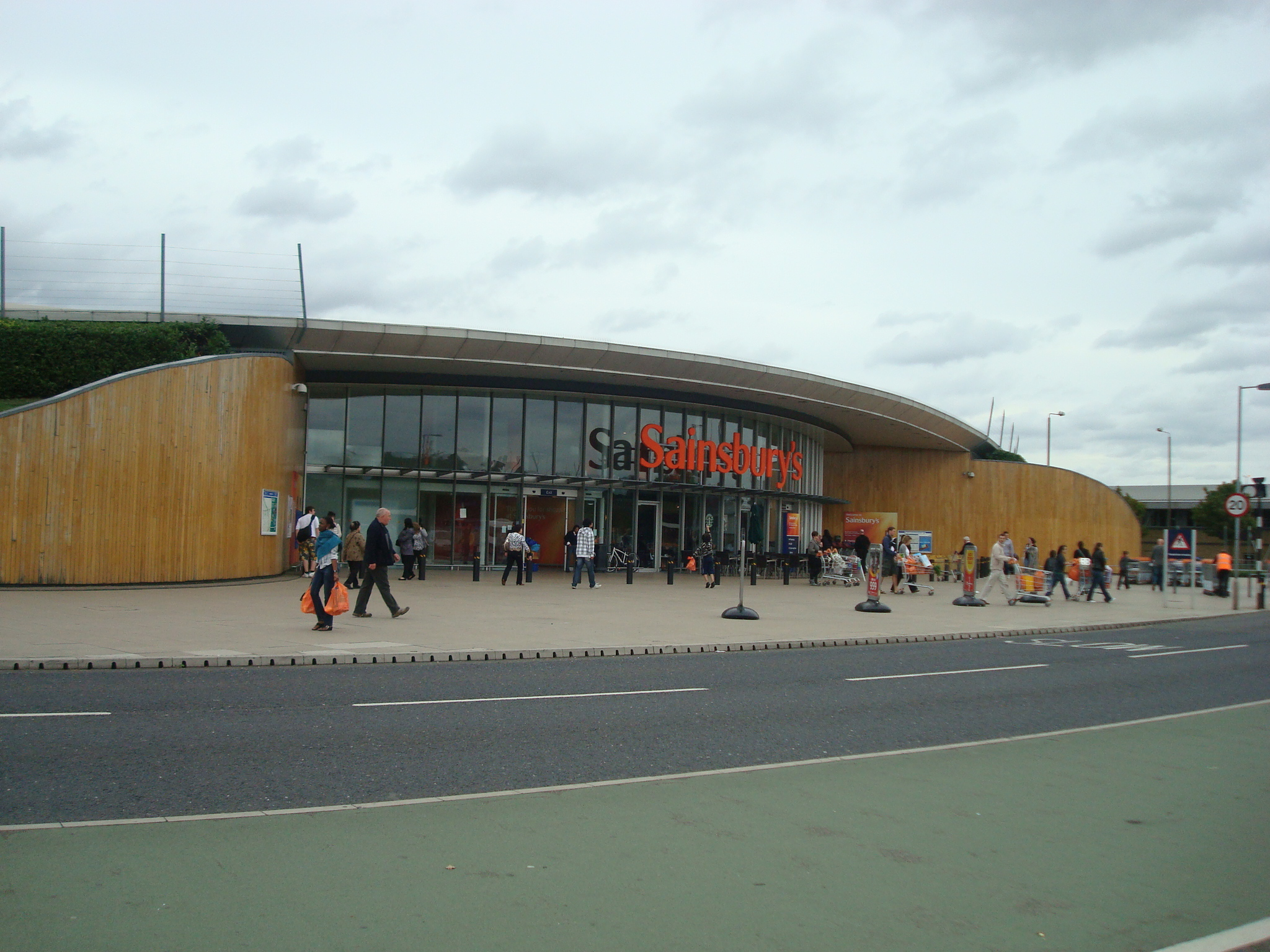 Sainsbury's supermarket, Greenwich, London, England